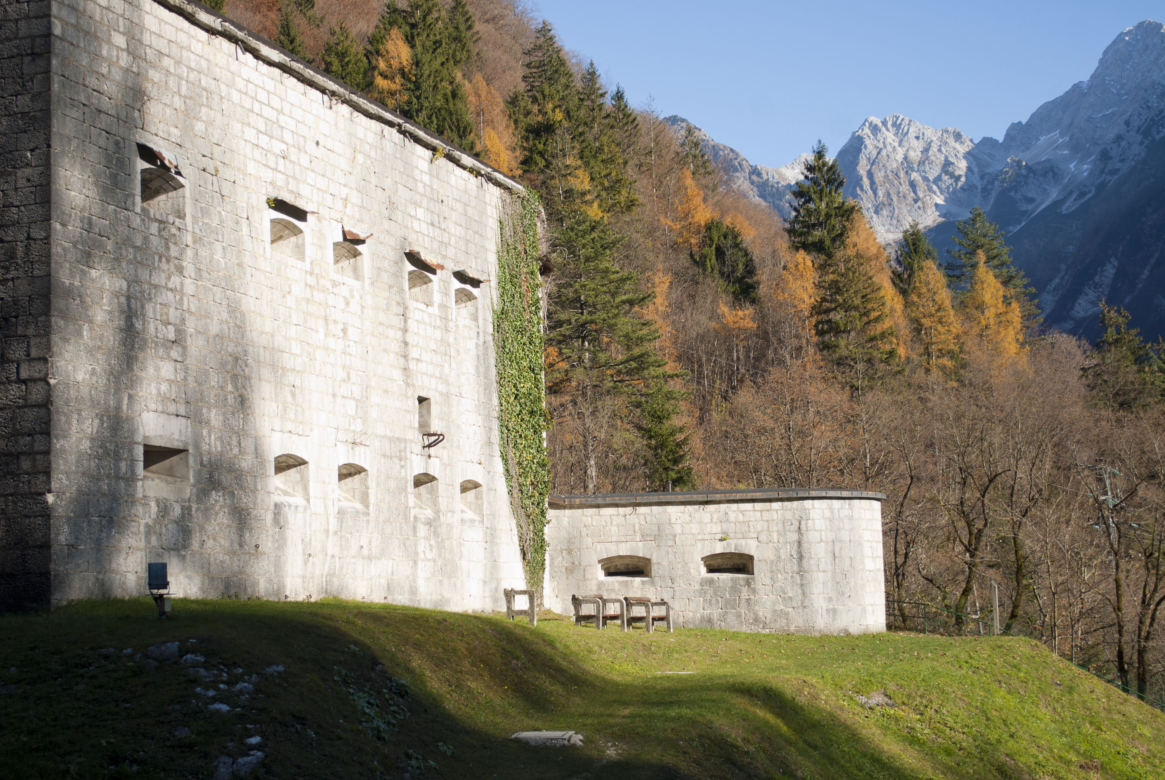 Fortress Kluže near Bovec, Slovenia